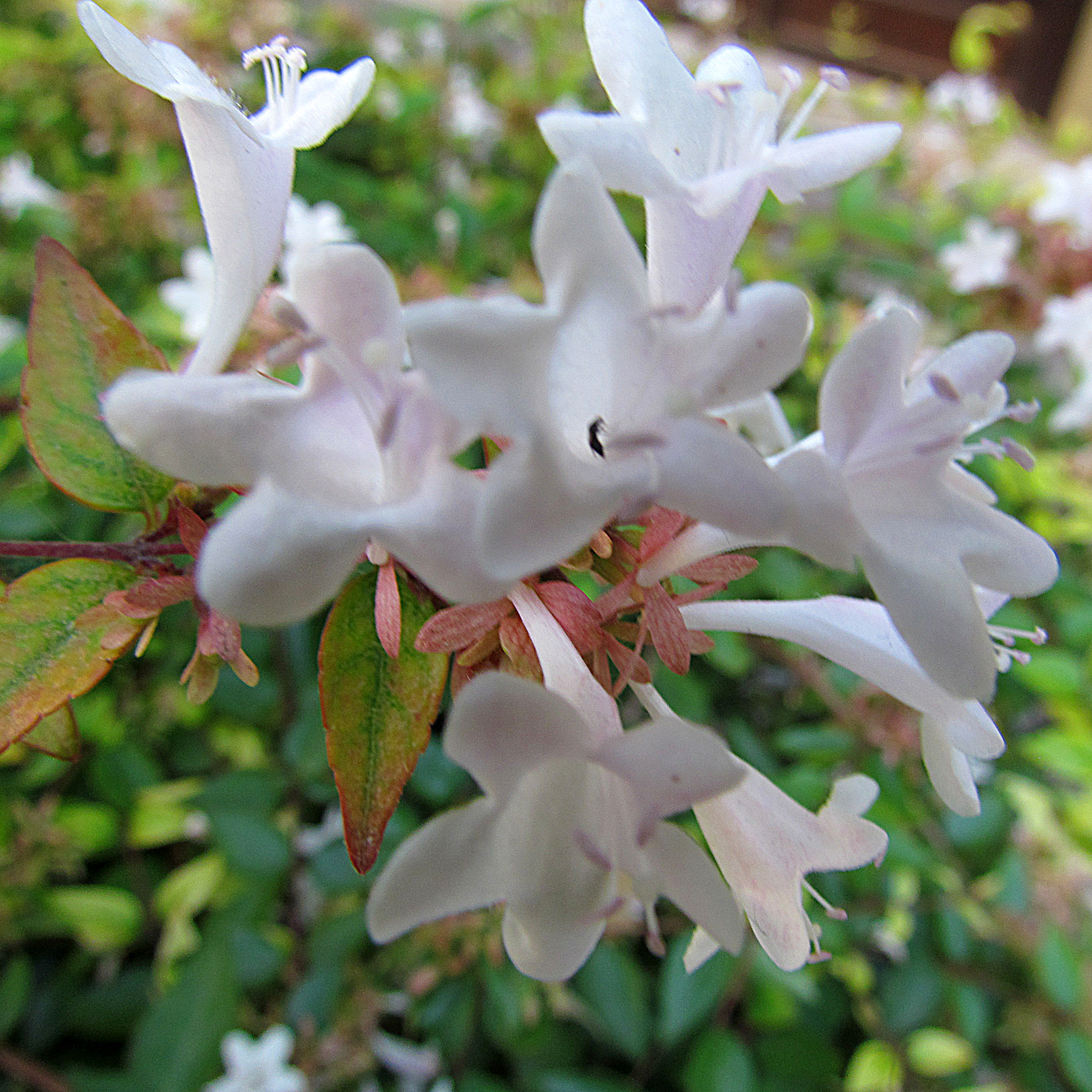 Abelia × grandiflora flowers